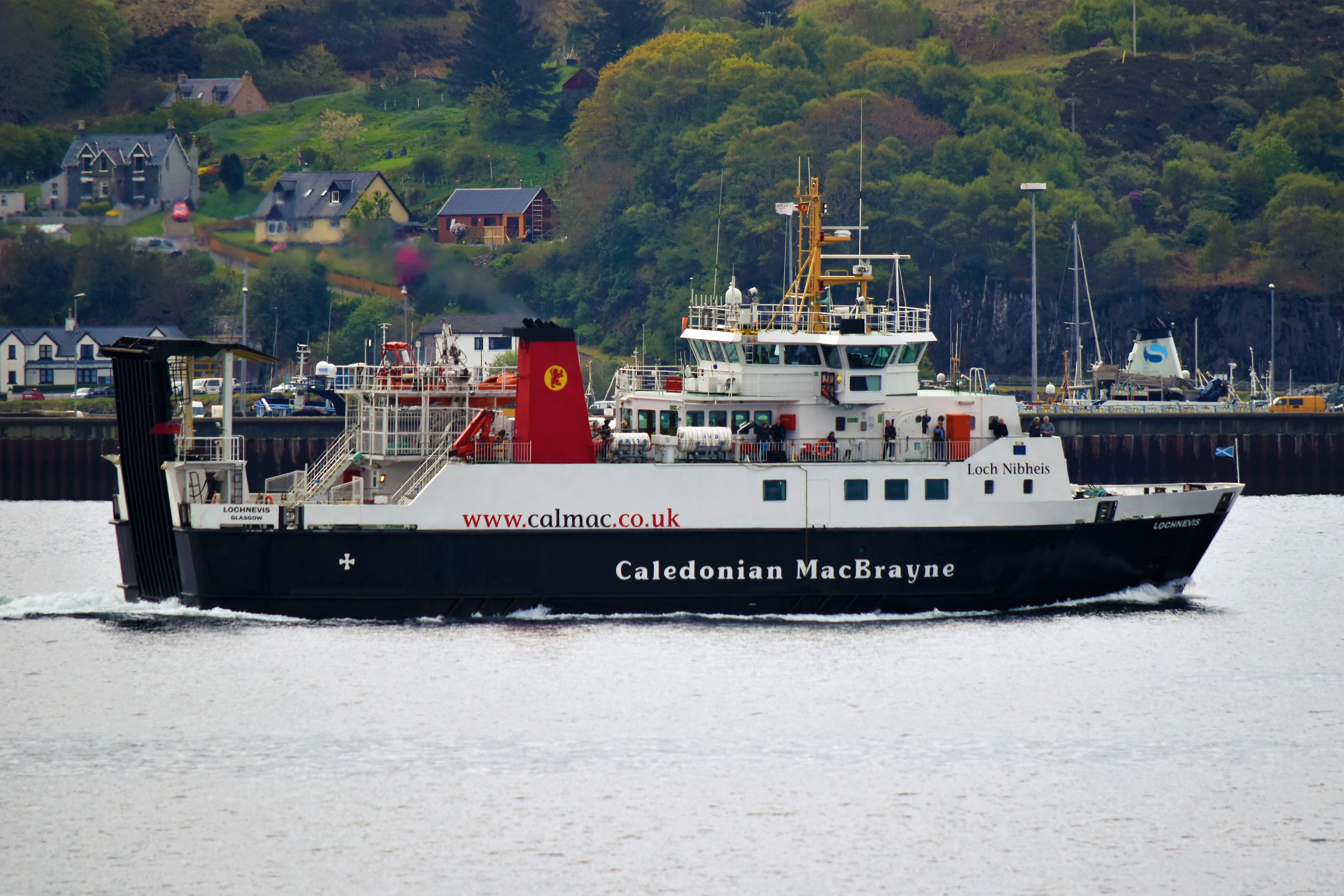 The CalMac ferry MV Lochnevis departs Mallaig on her regularly timetabled round trip to the Small Isles of Canna, Eigg, Muck and Rhum, 11 May 2017.